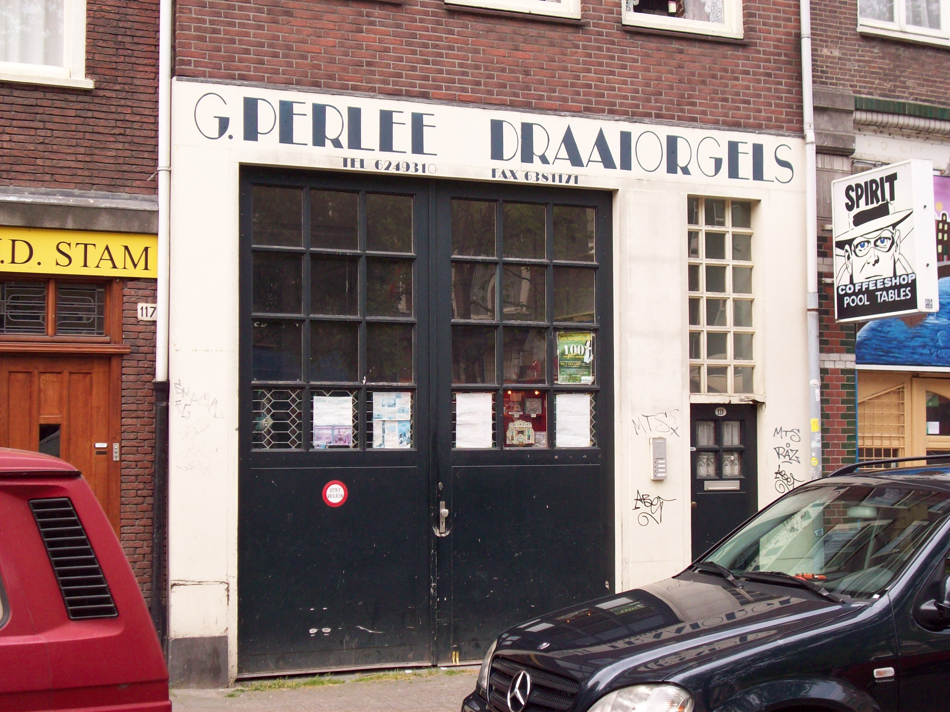 The Perlee family is one of the most famous (and also oldest) barrel organ families came from Amsterdam, Netherlands. The company is located in the Jordaan and lies on the Westerstraat. -- The workshop of Perlee, the Westerners in Amsterdam